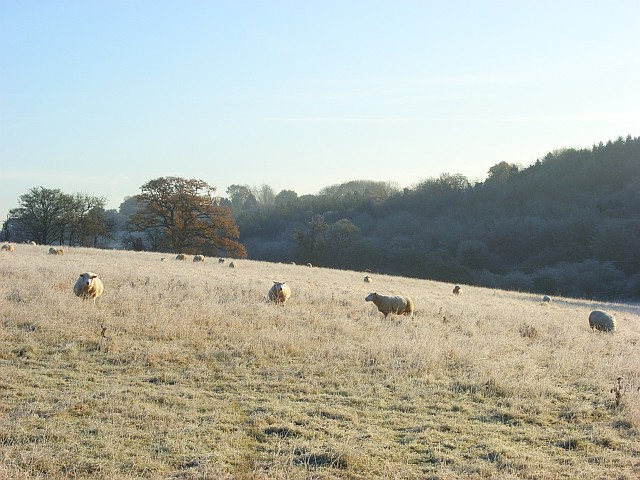 Harpsden Bottom Sheep on the northern flank of the dry valley. Its slopes are largely wooded.